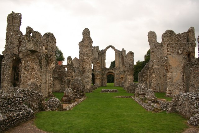 Castle Acre Priory nave